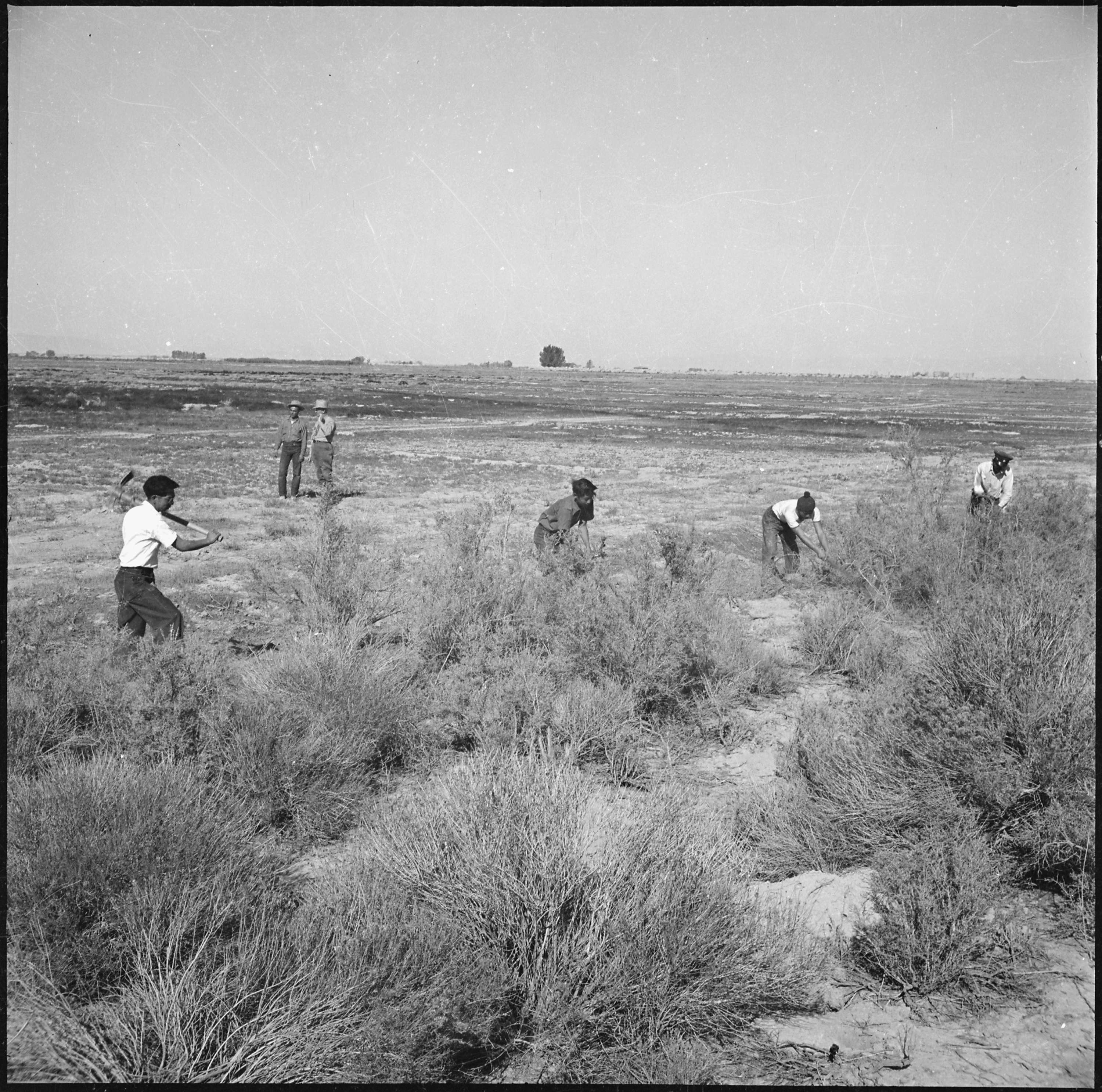 Scope and content: The full caption for this photograph reads: Topaz, Utah. A group of volunteer agricultural workers clearing virgin land of sagebrush and wild guayule prior to establishing irrigation ditches and planting of forage crops.